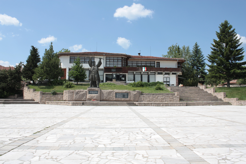 Center of Banya, Pazardzhik Province with the Culture club and the Memorial of priest Gruyu